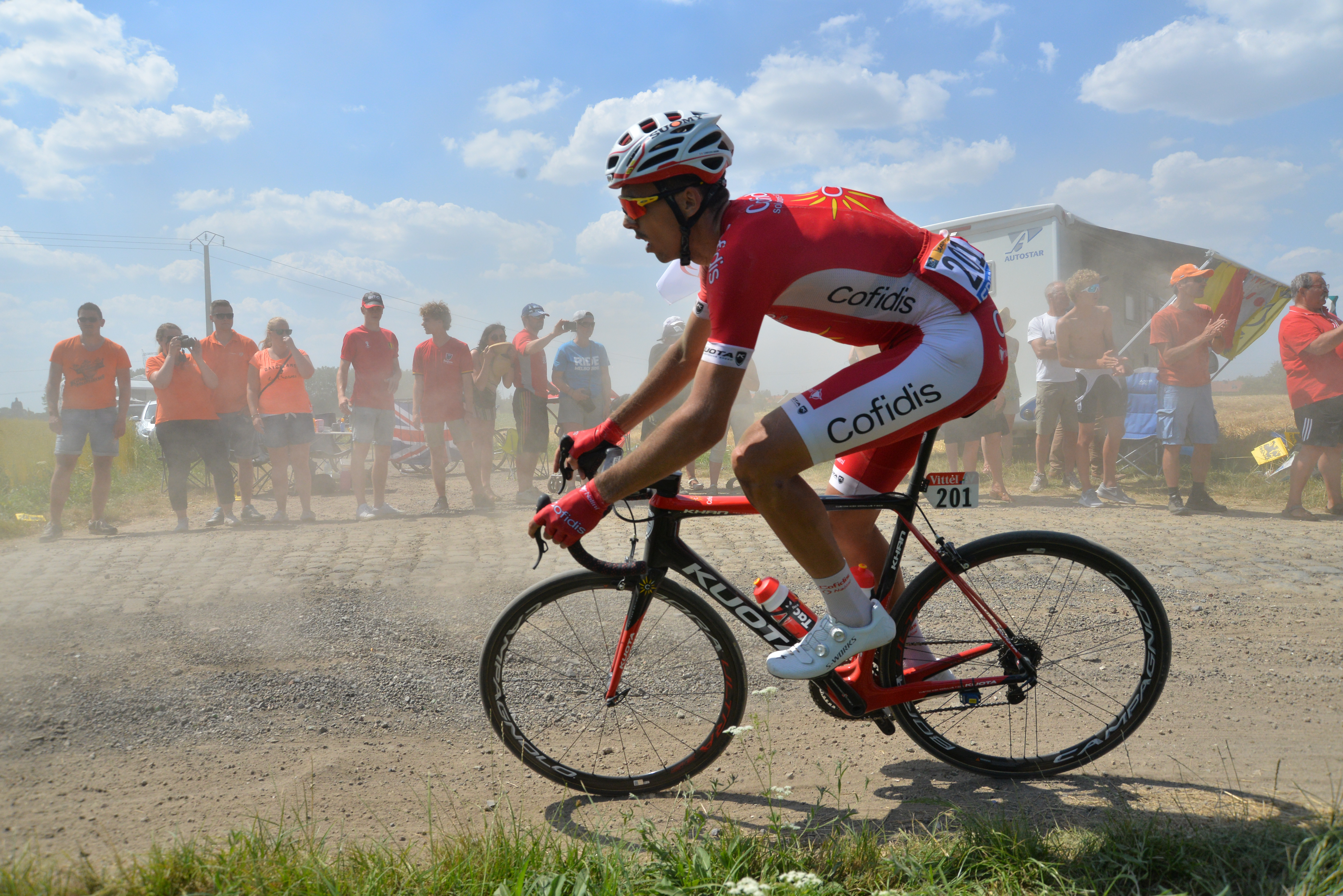 2018 Tour de France – stage 9 sector 9